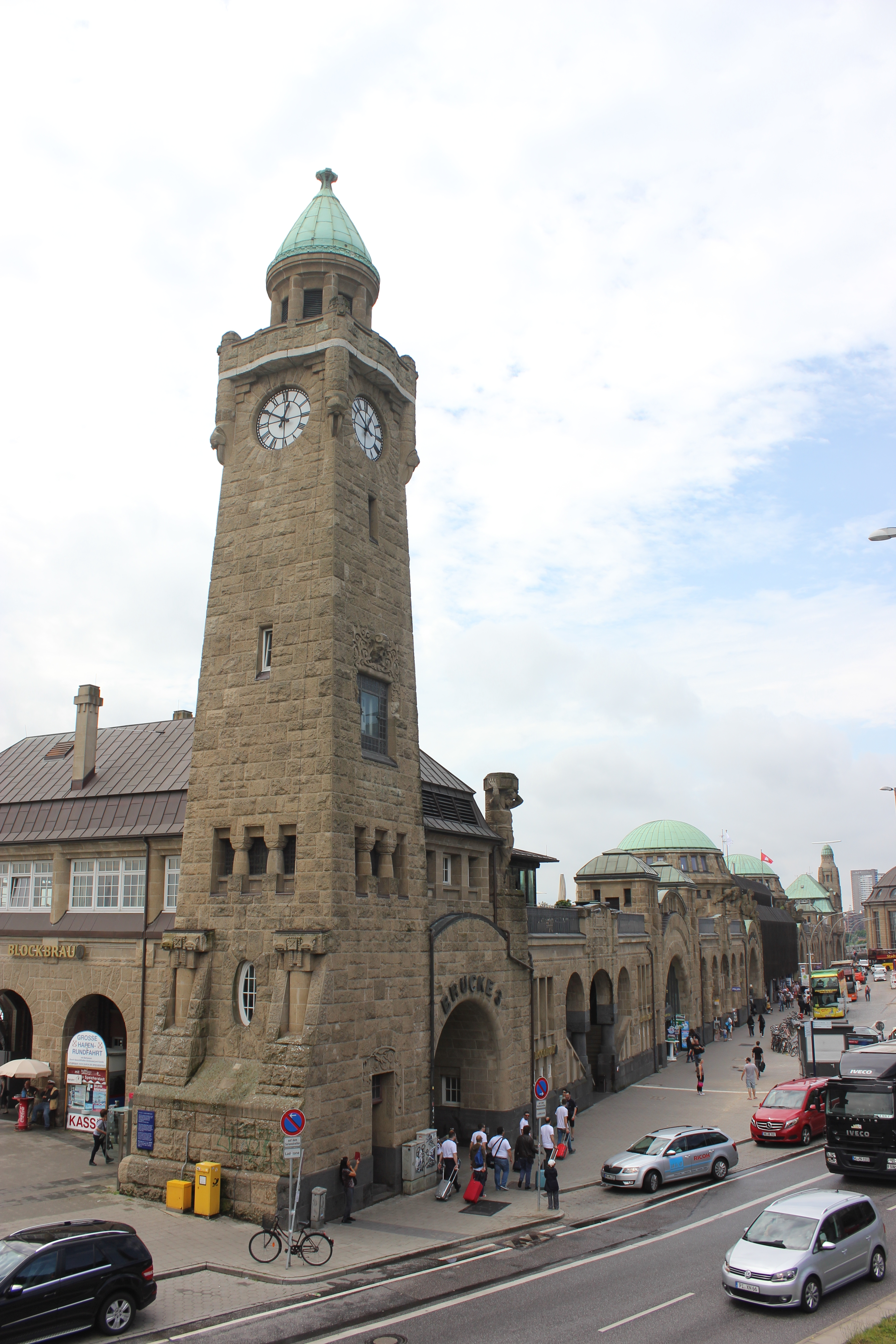 Hamburg - St. Pauli Landing Bridges